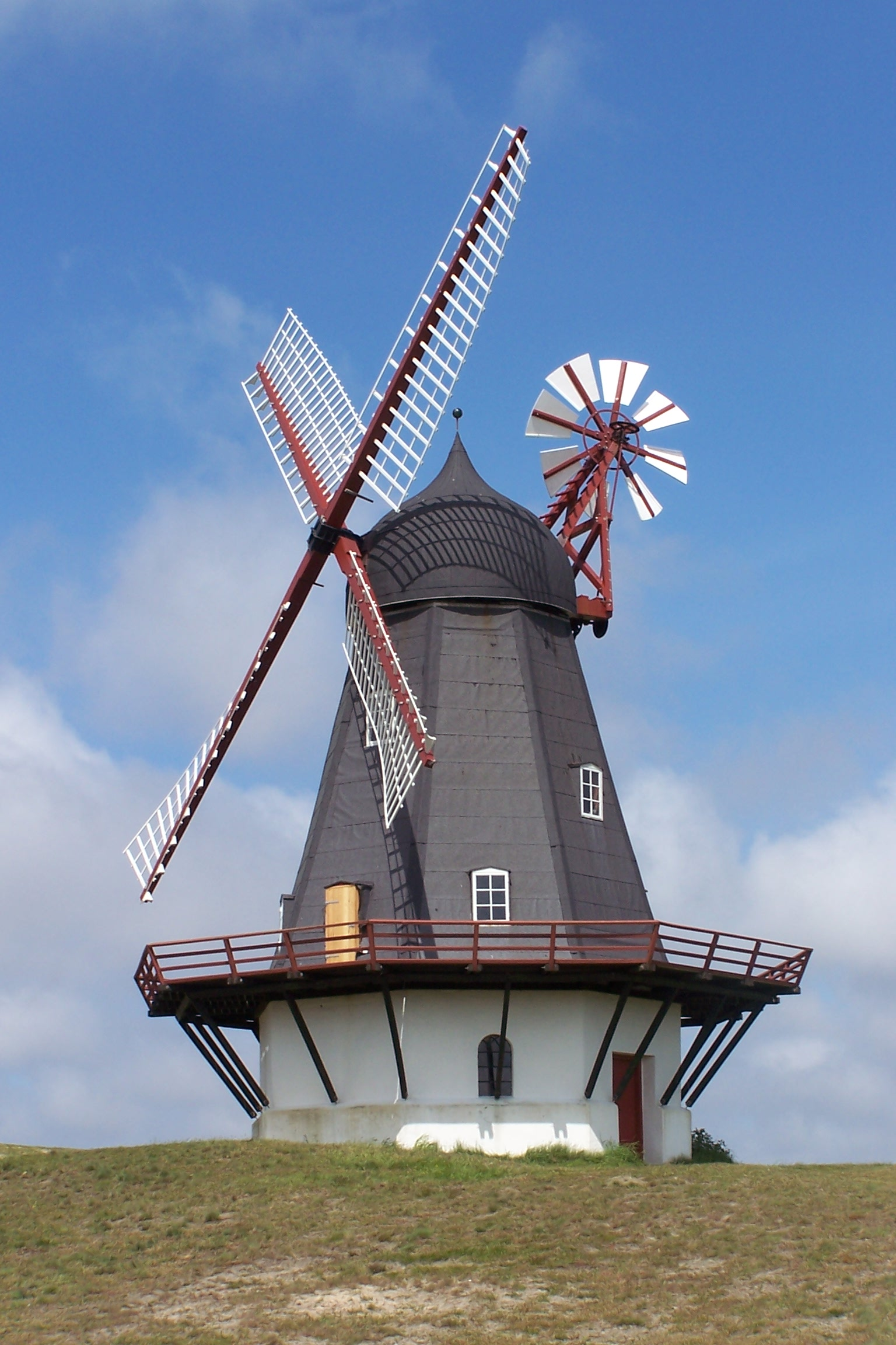 Windmill in Sønderho, Fanø, Denmark. Dutch type, built in 1895 to replace an older mill destroyed by fire in 1894.